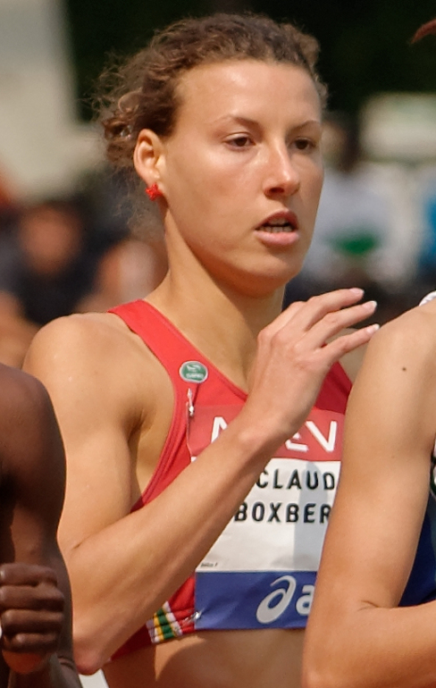 Women's 800-metre race during the French Athletics Championships 2013 at Stade Charléty in Paris, 13 July 2013.